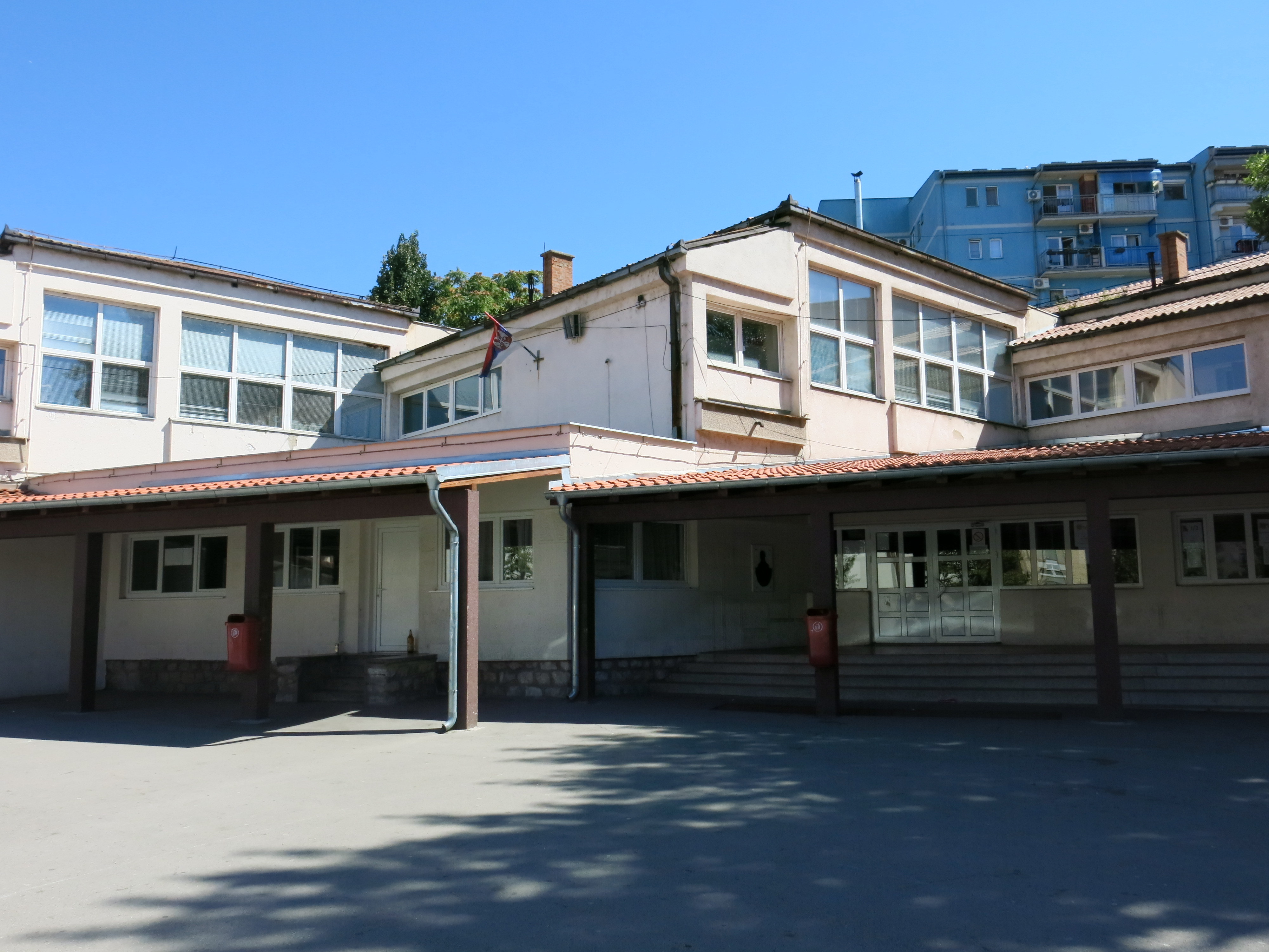 Smederevo, Elementary school Jovan Cvijić